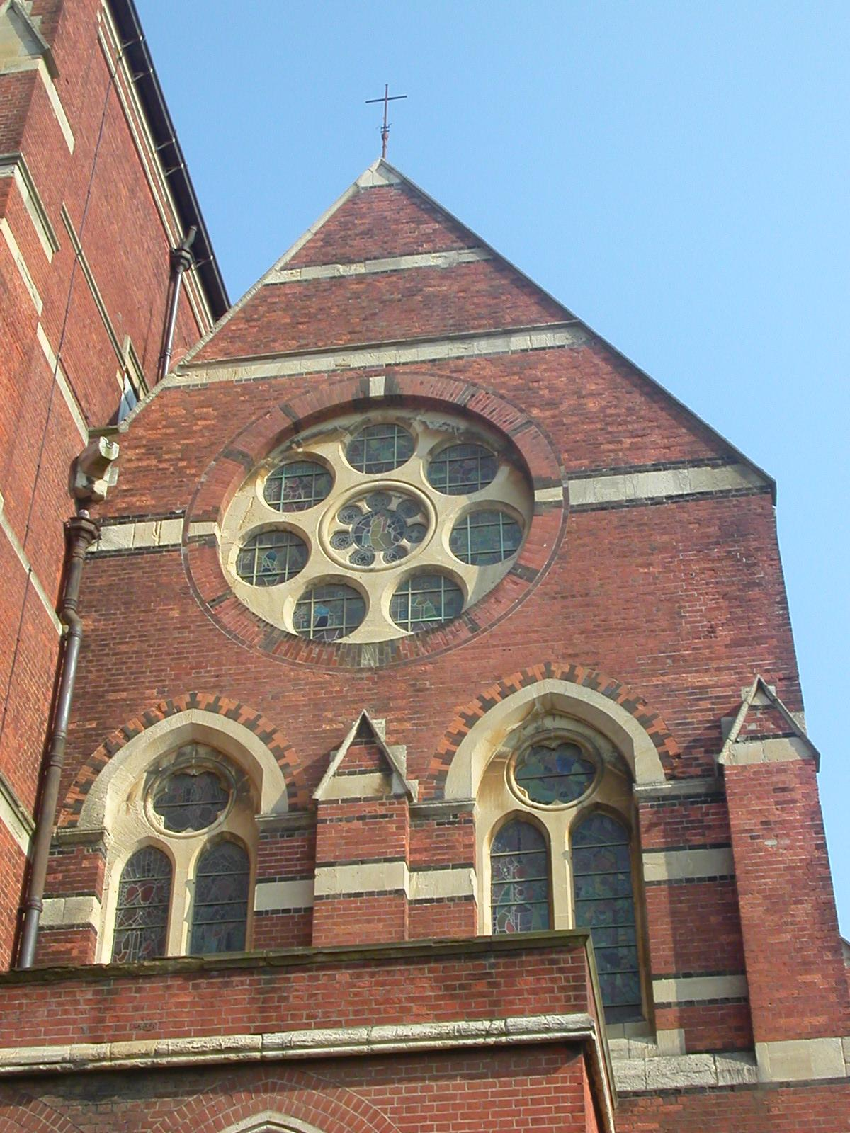 St Michael and All Angels Church, Brighton - windows at west end of the south aisle (the original 1862 building). Photographed on 31st March 2007.